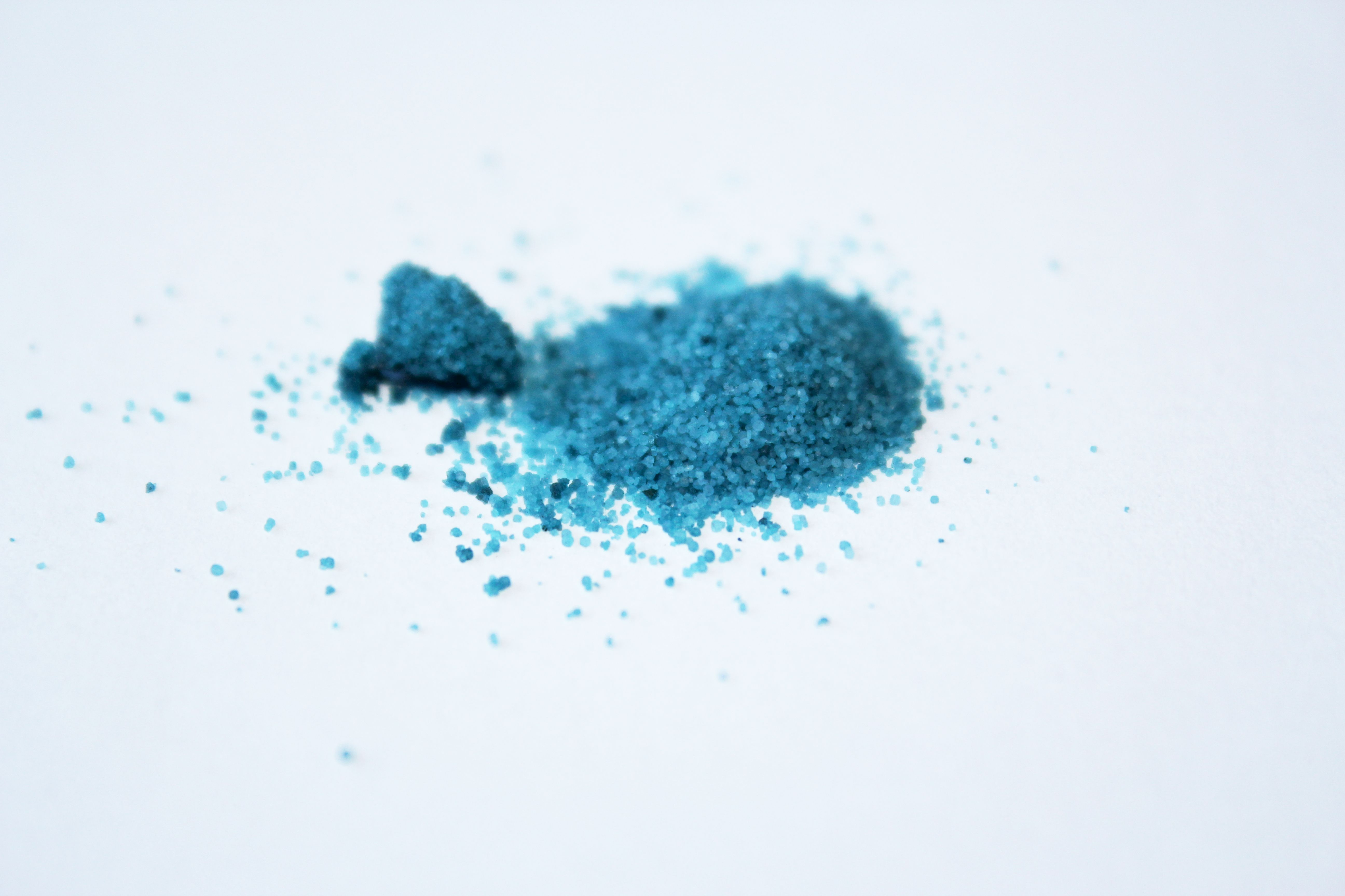 Crystals of Patent Blue V